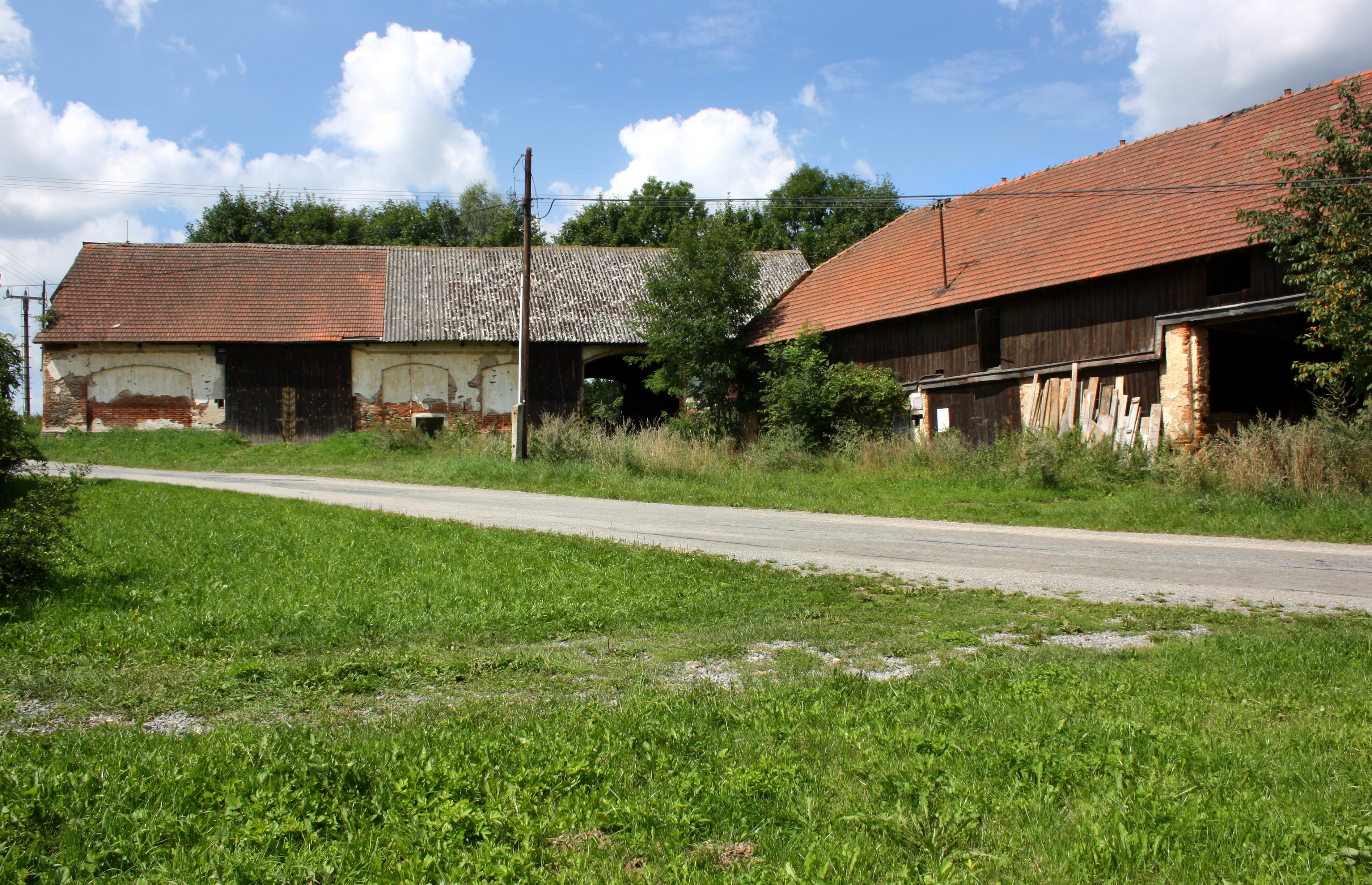 Old barn in Kocourovy Lhotky, part of Pelhřimov, Czech Republic